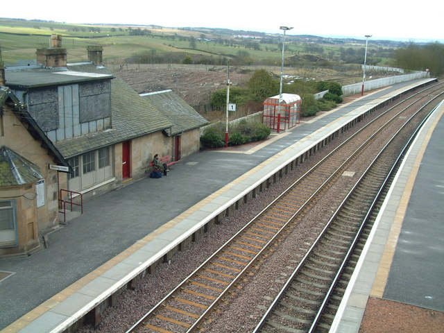 Shotts railway station. Trains for Glasgow leave from the left hand platform, and for Edinburgh from the right.